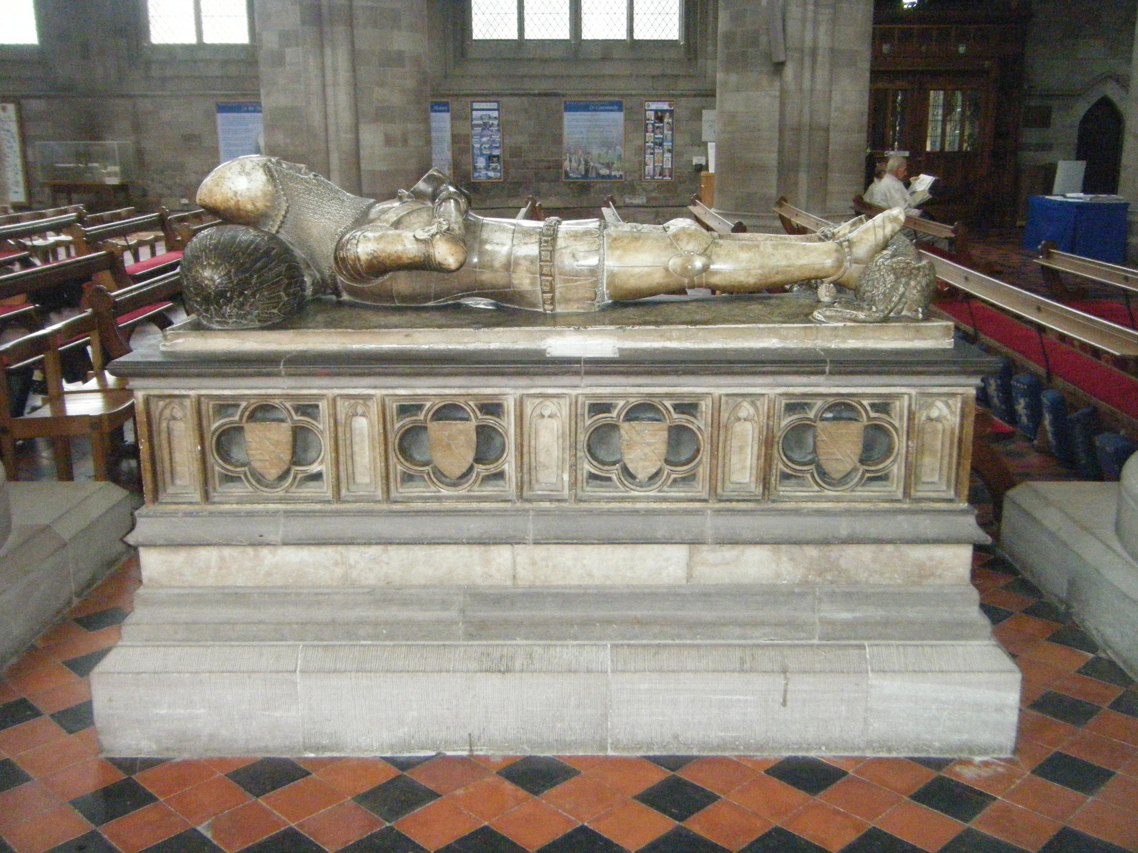 The Tomb of Sir Richard Pembridge (died 1375), one of the earliest Knights of the Garter who fought at the Battle of Poitiers 1356; at Hereford Cathedral, 06/12.